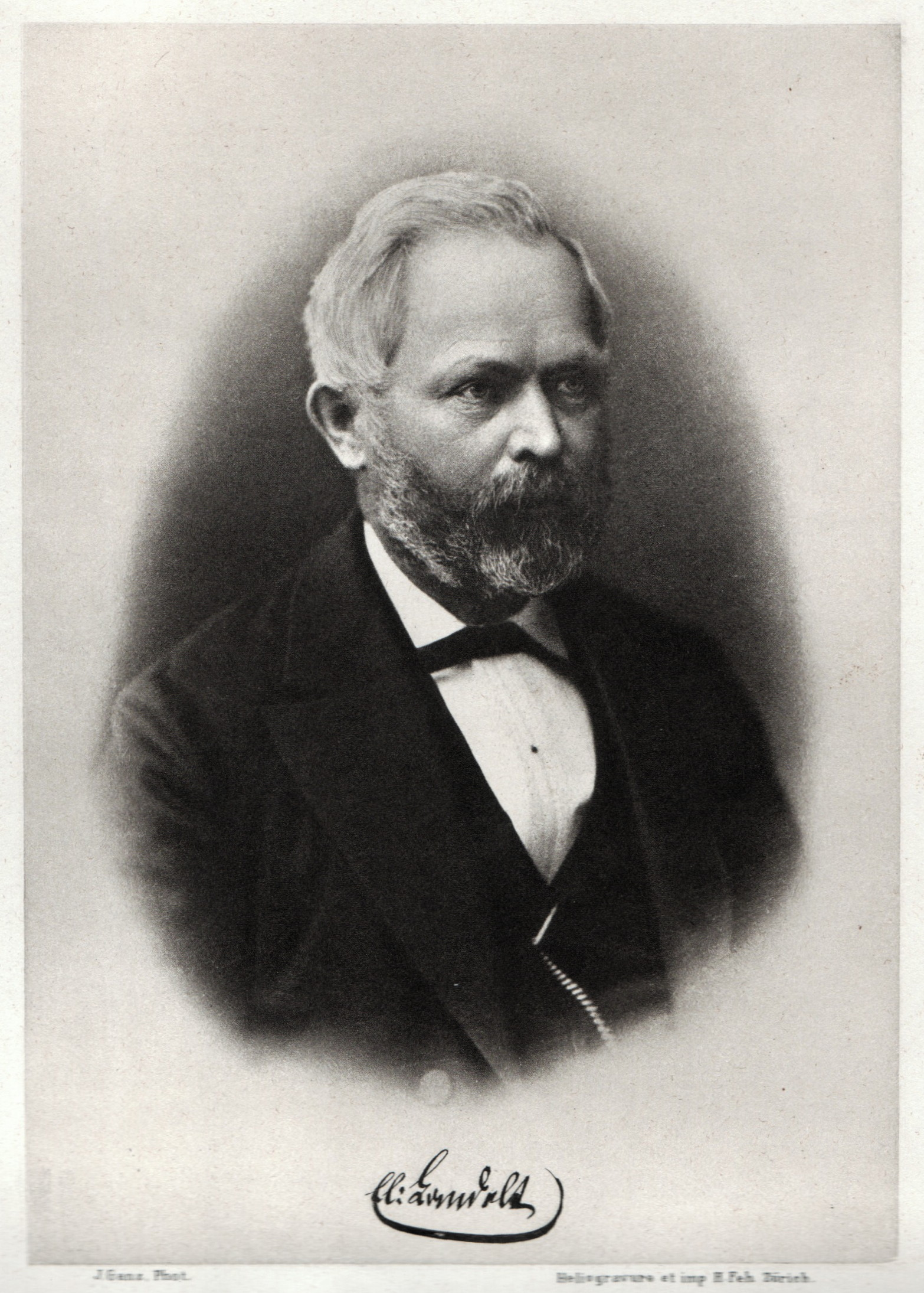 Elias Landolt (1821–1896), Swiss forestry scientist